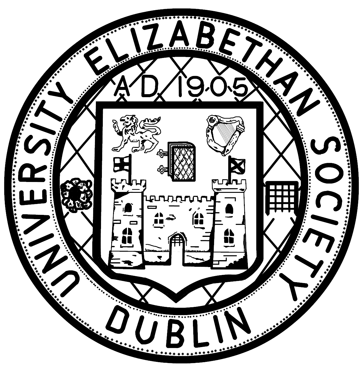 Crest of the Dublin University Elizabethan Society. Now part of the University Philosophical Society within Trinity College Dublin.